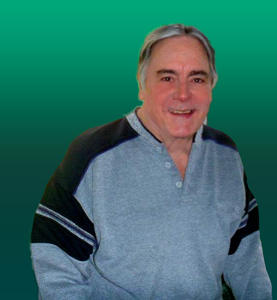 Picture of John Rook taken on 4-23-13.